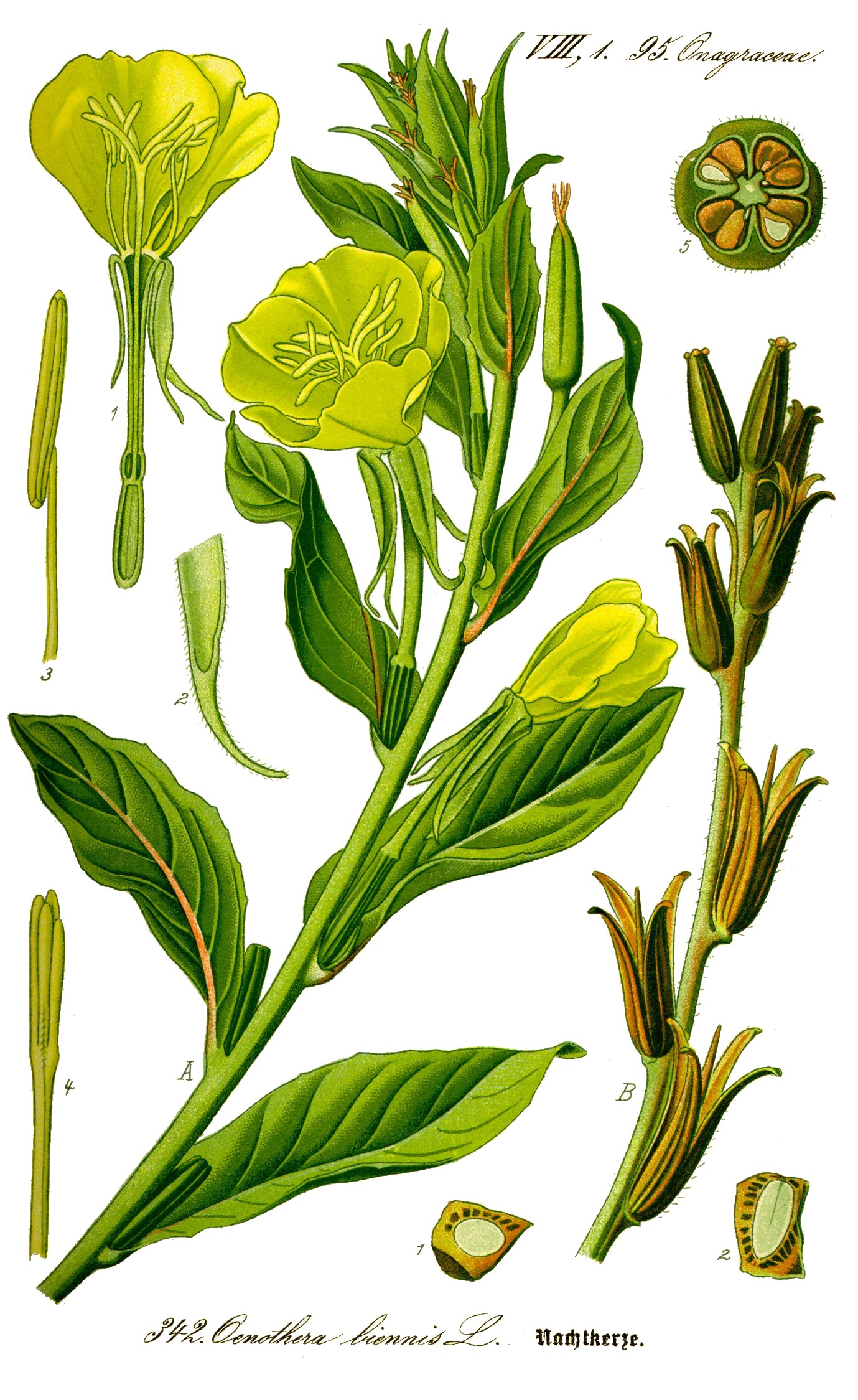 Name Oenothera biennis Family Onagraceae